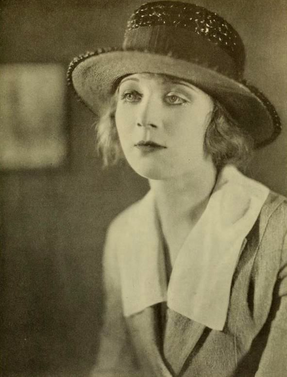 Actress Jane Novak, on page 59 of the January 1922 Photoplay.